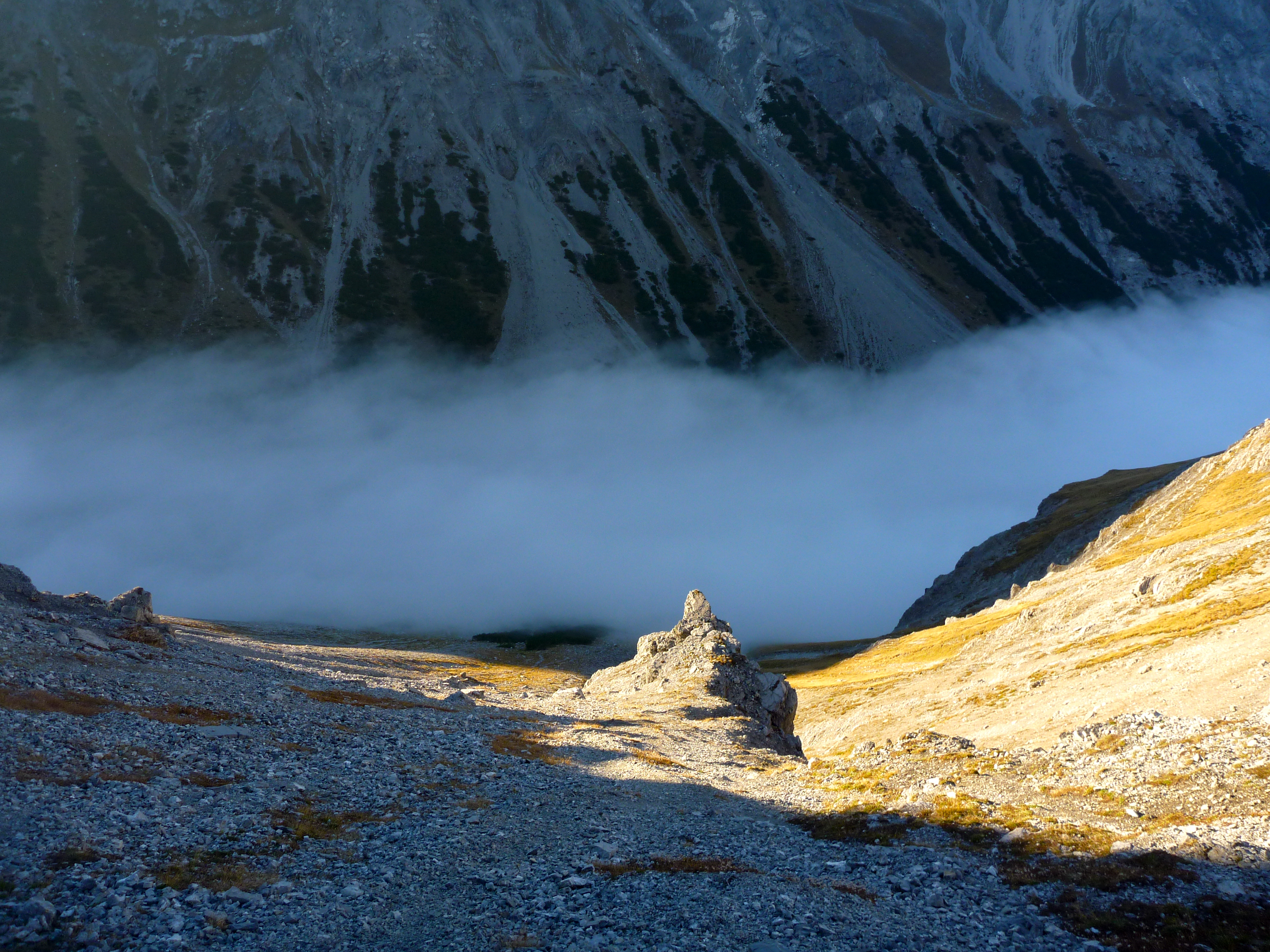 Welschtobel at Arosa from above